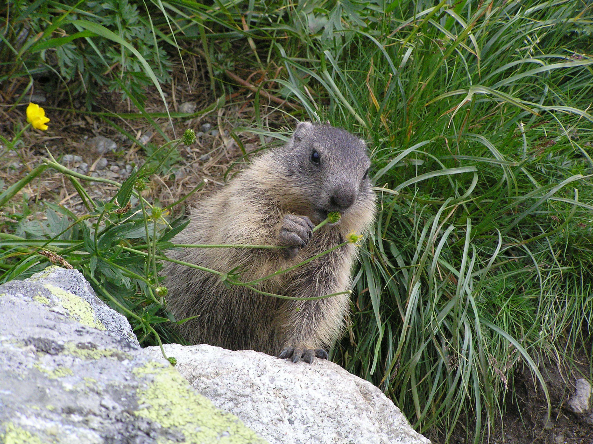 Young Alpine Marmot (Marmota marmota latirostris) in the High Tatras (Slovakia).